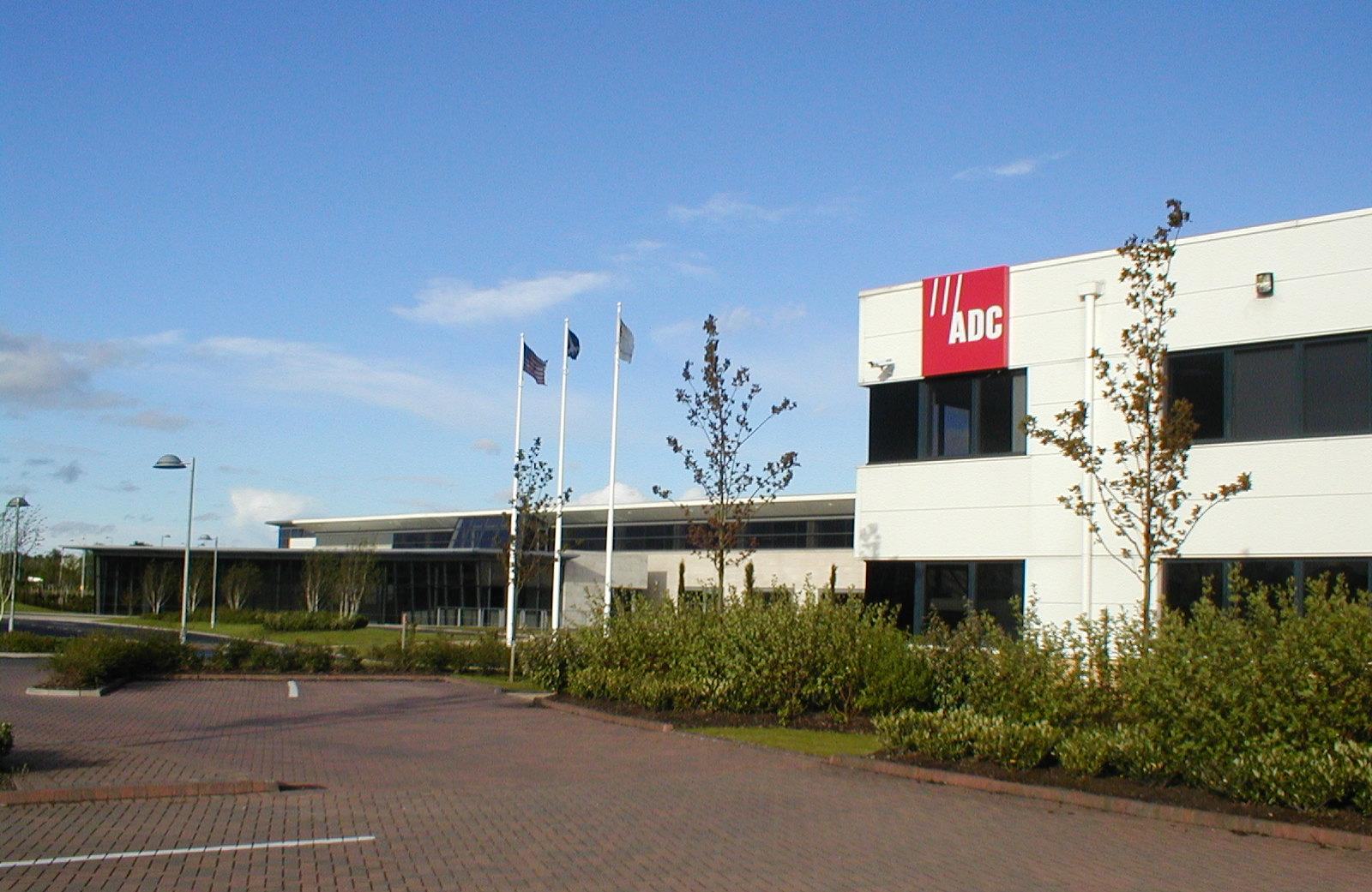 The ADC factory Glenrothes in 2005 before being taken over by